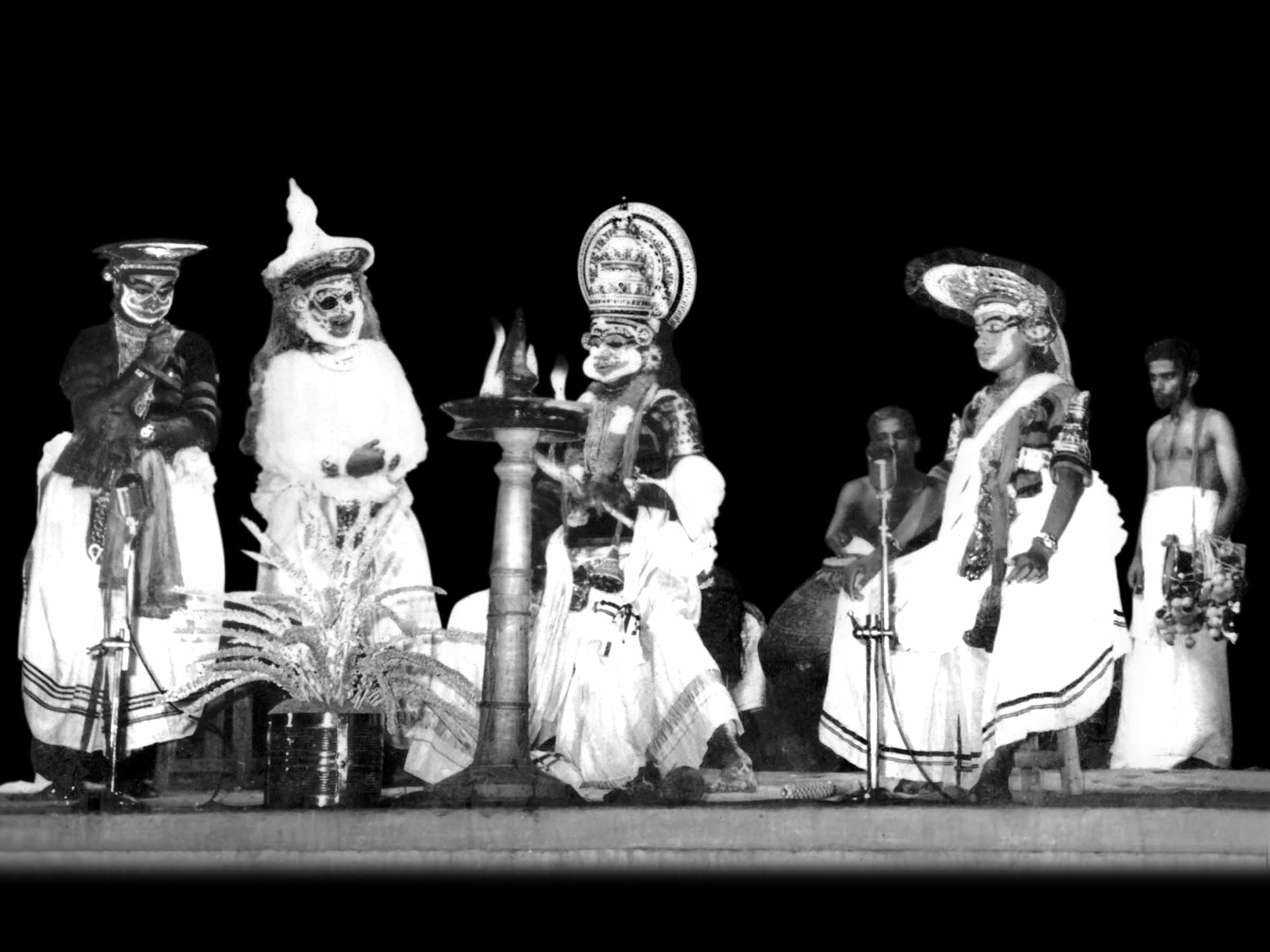 The first ever Kutiyattam performance outside Kerala- Madras (Chennai), 1962. Guru Nātyāchārya Vidūshakaratnam Padma Shri Māni Mādhava Chākyār as Ravana, Mani Neelakandha Chakyar as Hanuman, Mani Damodara Chakyar as Vibheeshana & P.K G.Nambiar as Shankukarna in Thoranayudham Koodiyattam. Author:Sreekanth. V (Sreekanthv), Photo from his private collection.